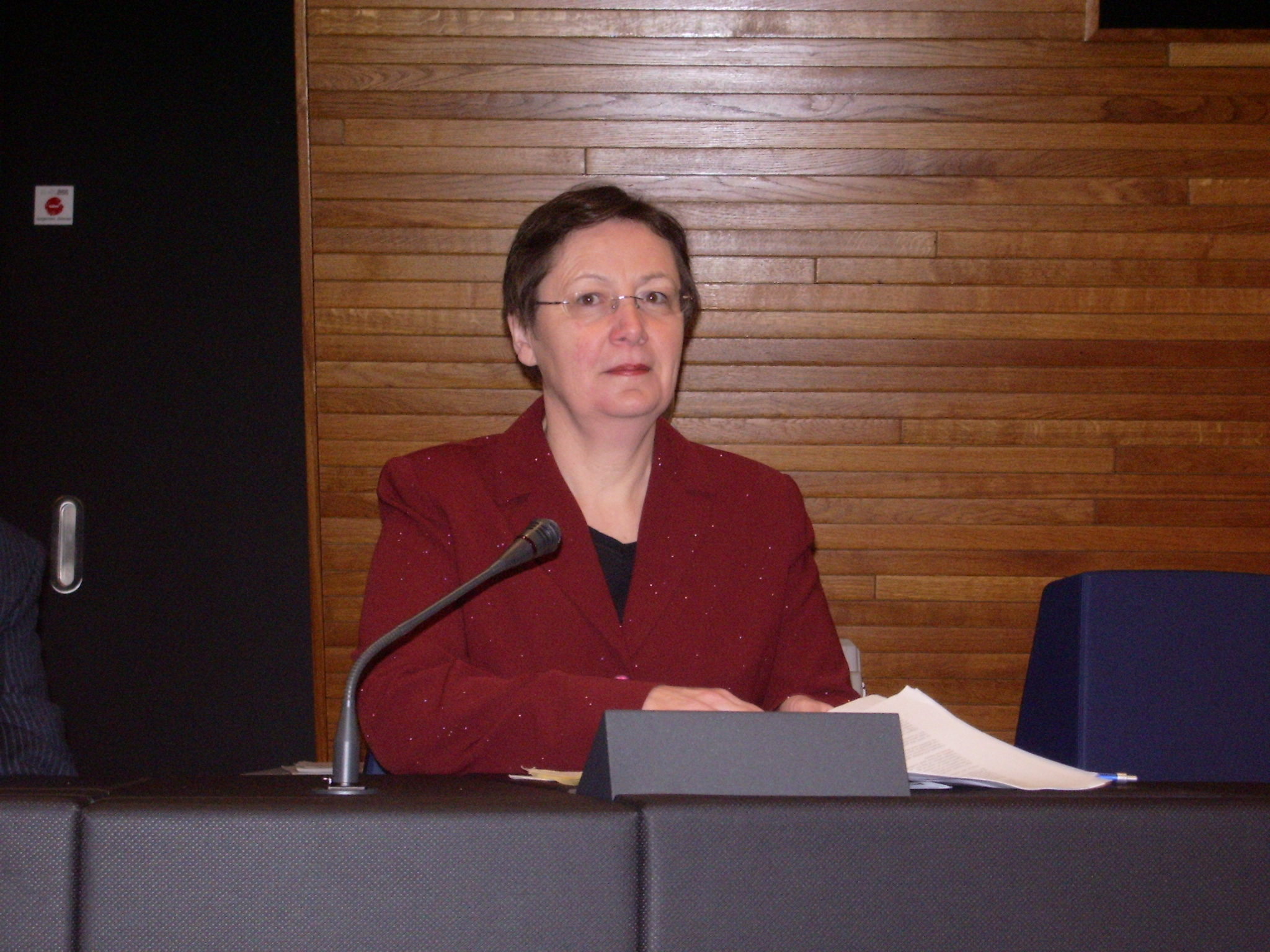 MEP Bairbre de Brún in the European Parliament in Strasbourg.